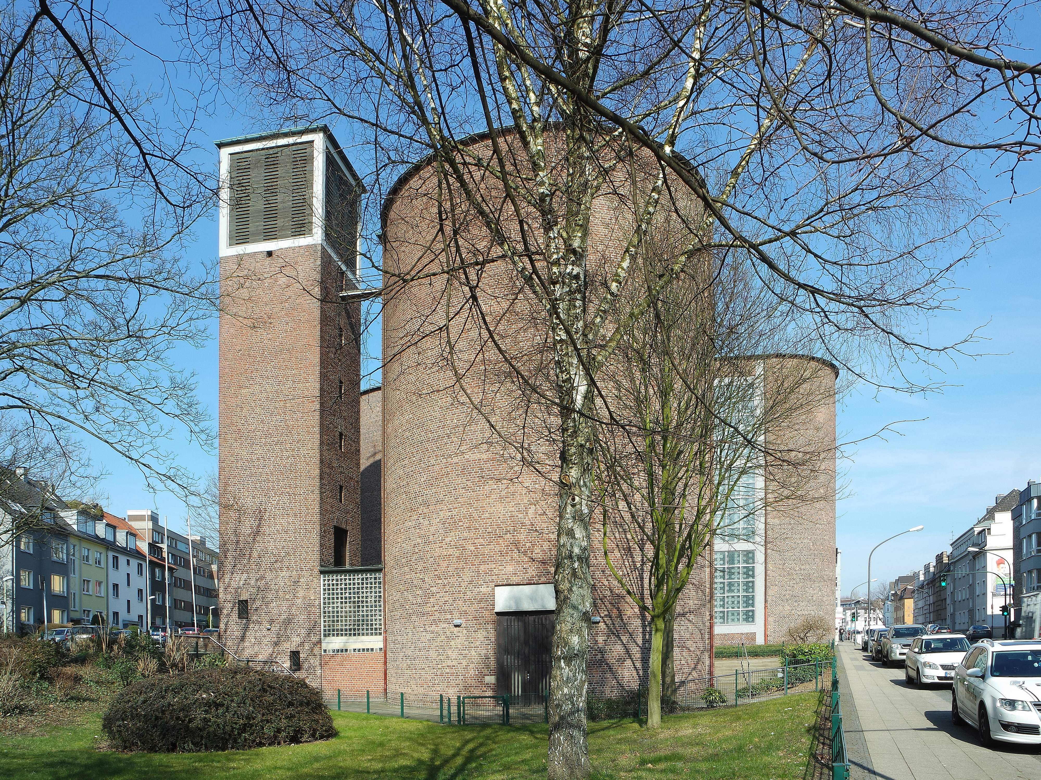 View of the Parish Church St. Andrew in Rüttenscheid/Essen, Germany.